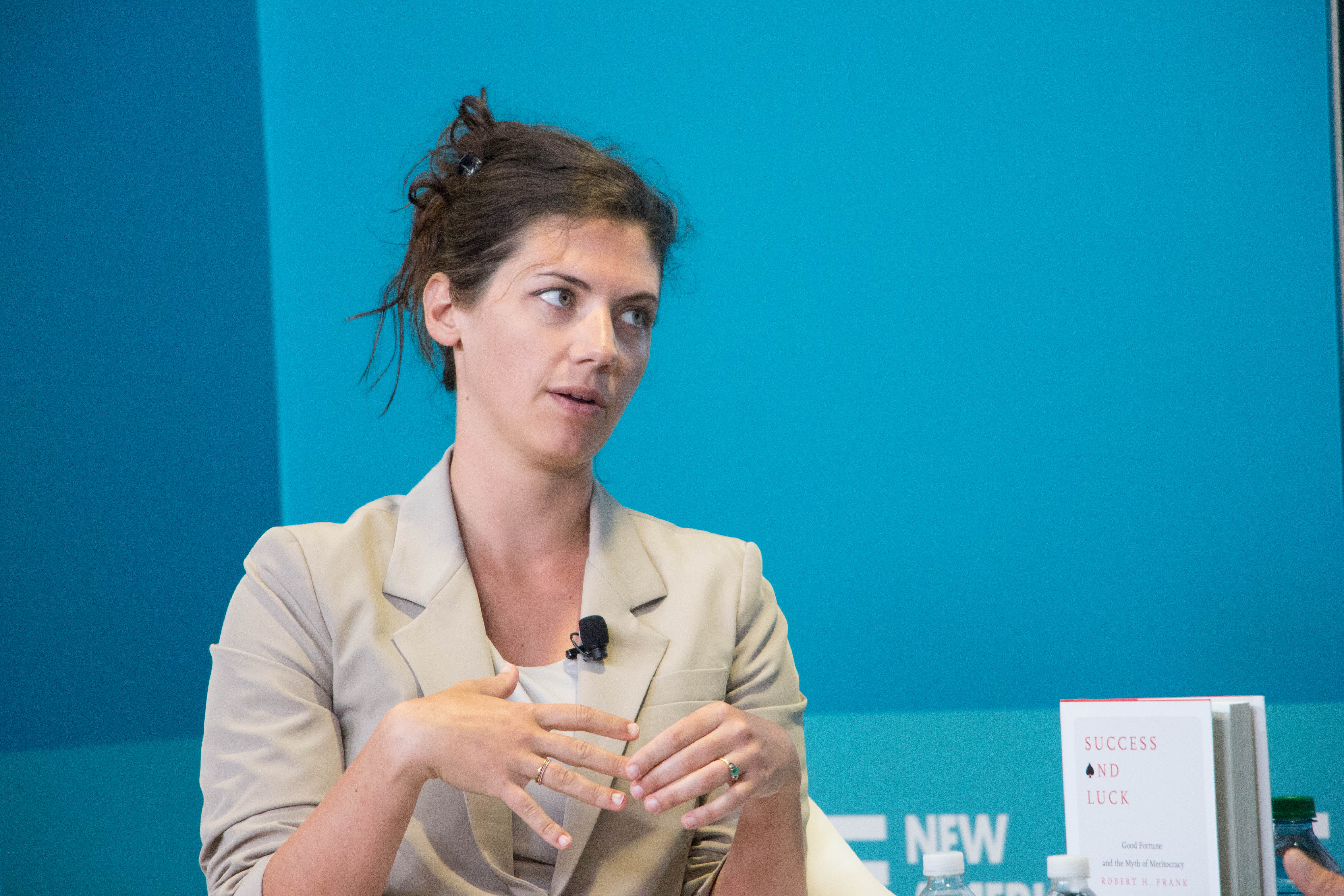 Annie Lowrey, Writer, New York Magazine